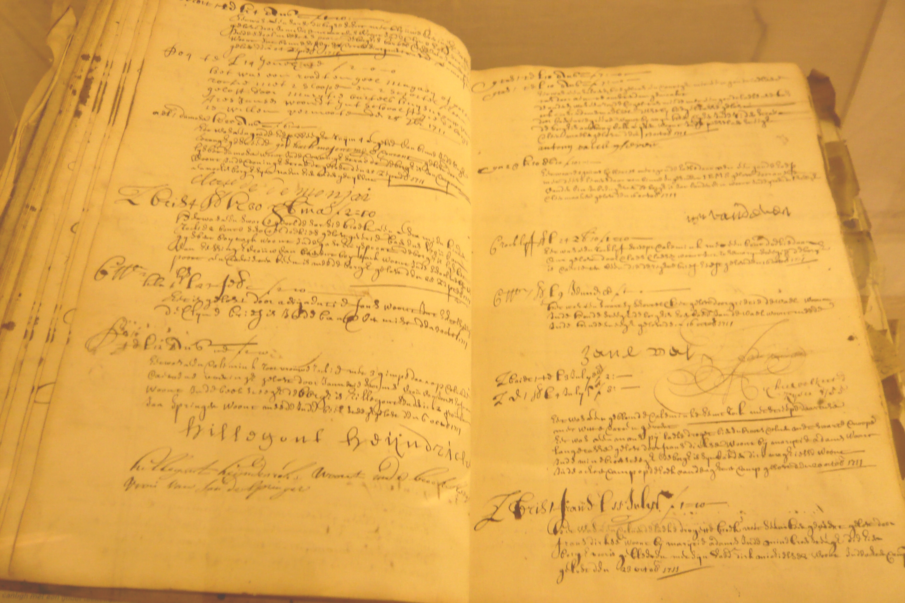 Book of loans from the Haarlem Bank van Lening (early city bank that operated like a pawn shop) Fragment top right transcription "It was a silver handbag with lace and gold embroidery made in Amsterdam. The other was a round handbag also with gold brocade of Amsterdam origin, pawned by Barentie Greeve living with Mr. Keyser in De Ridderstraat. Her contact is Anthony Valkeizer in the Peuzelaar steeg. Tailor paid 13 October 1711" het was een sulveren büegeltas en cantigh met een goudt laekense tas daar aen te amsterdam gemaakt de anderen was een ronde bügeltas meede met een goudt laeken oock amsterdamse maeksel deese bij büegeltasse gelost door baerentie greeve woont bij mijnheer Cijser Inde rider Straat de borgh is anthonij Valkeijser woont Inde püeselaer Steegh cleer maeker gelost den 13 octo 1711